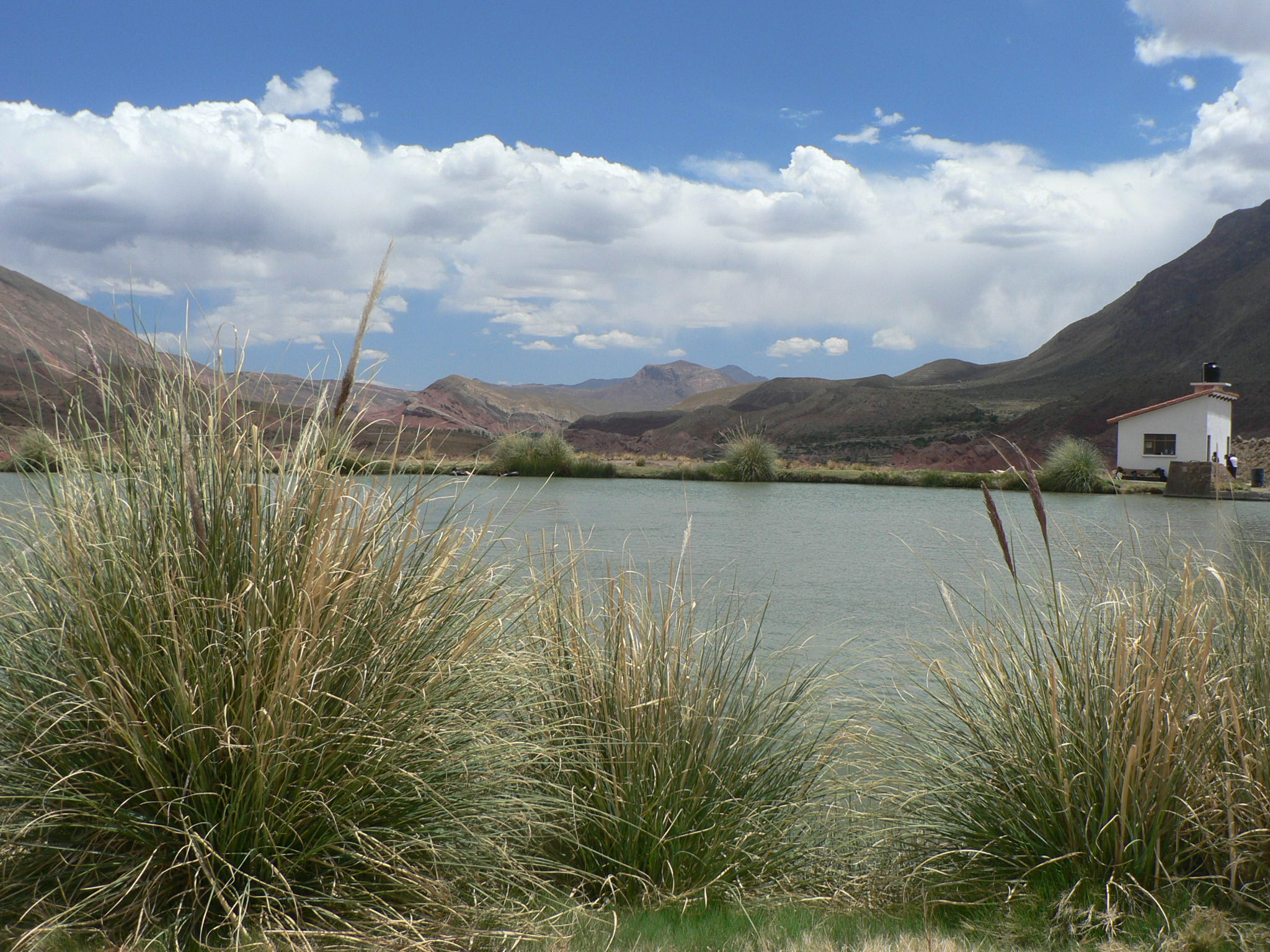 The volcanic lagoon "Ojo del Inca" in Tarapaya, close to Potosí, Bolivia.